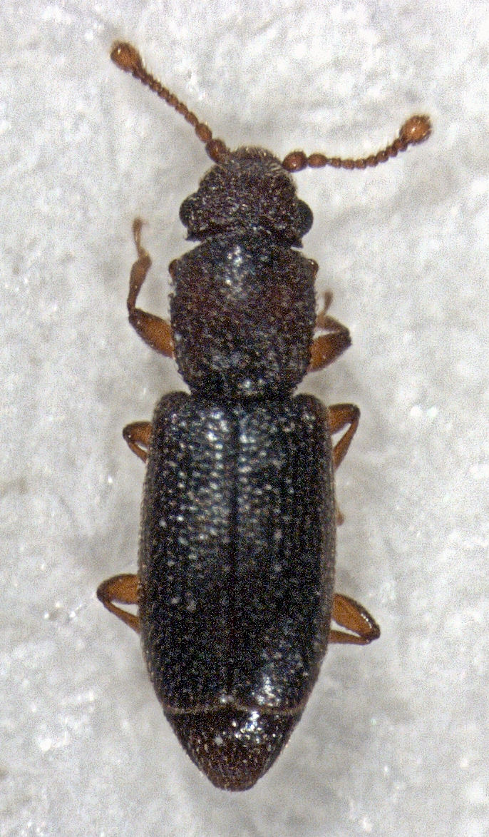 adult Monotoma longicollis